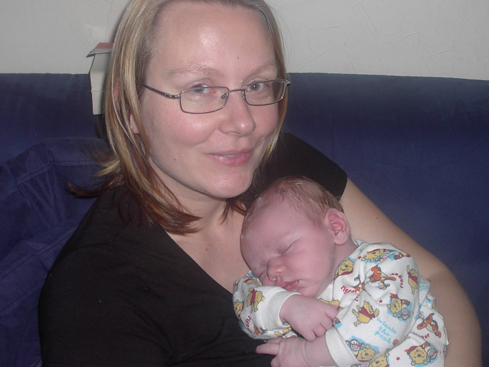 In the photo: baby and his mother